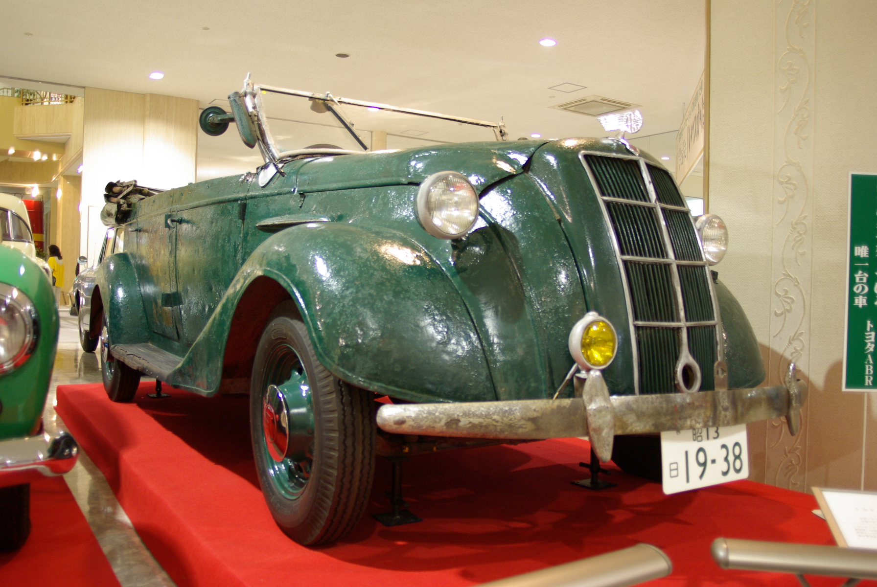 Toyoda Type ABR Phaeton in Japan Automobile Museum